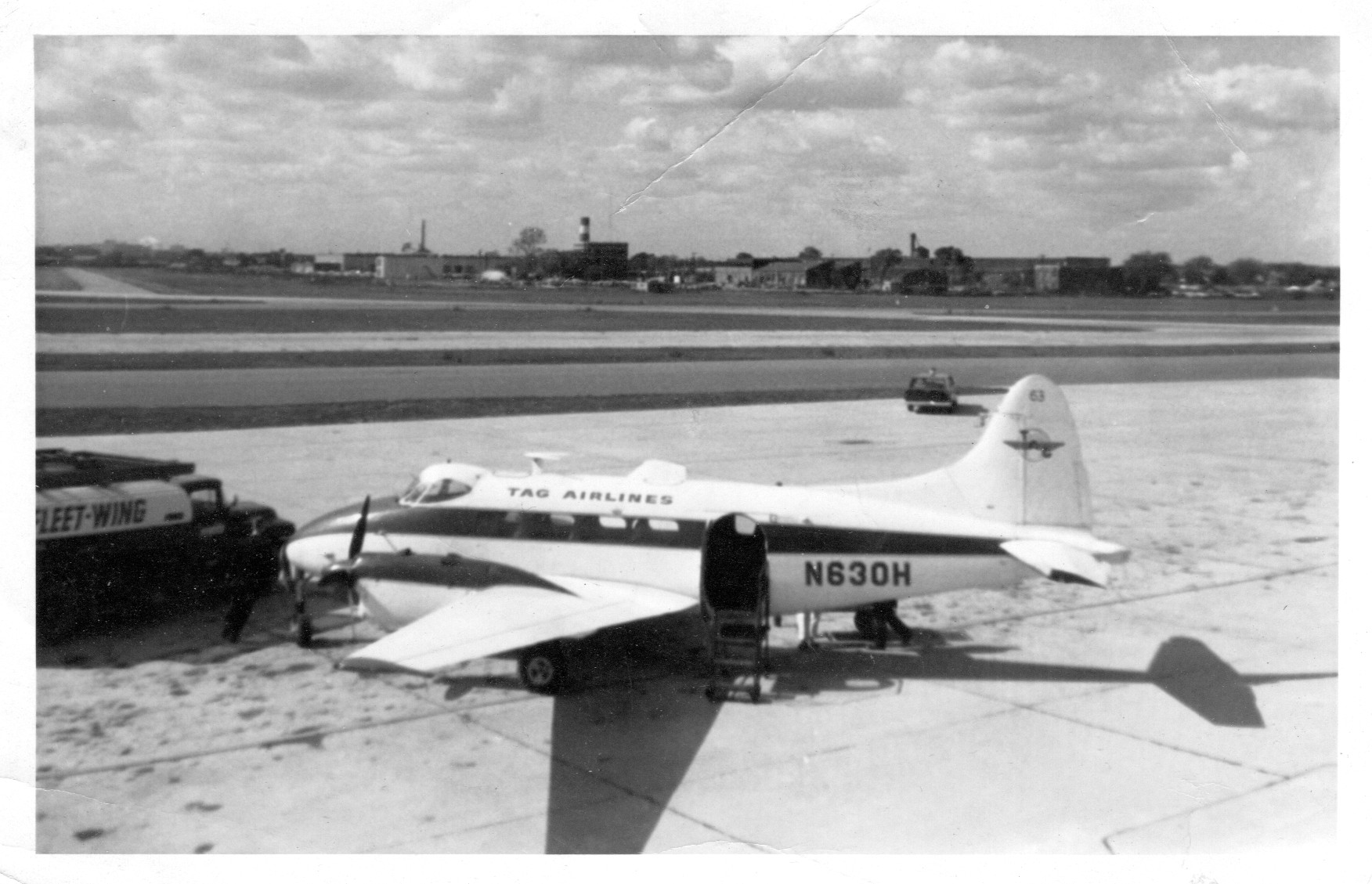 de Havilland Dove airplane operated by TAG Airlines at Detroit City Airport, Michigan, US